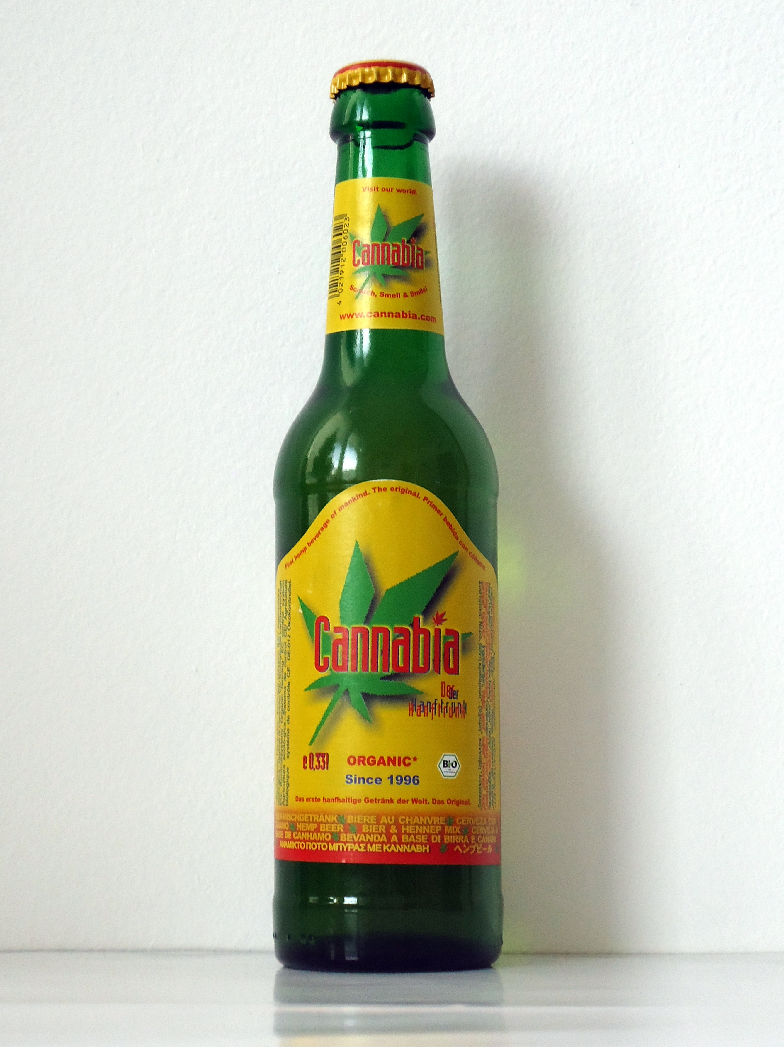 Cannabia bio beer